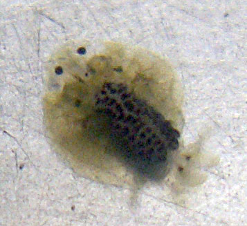 fish lice